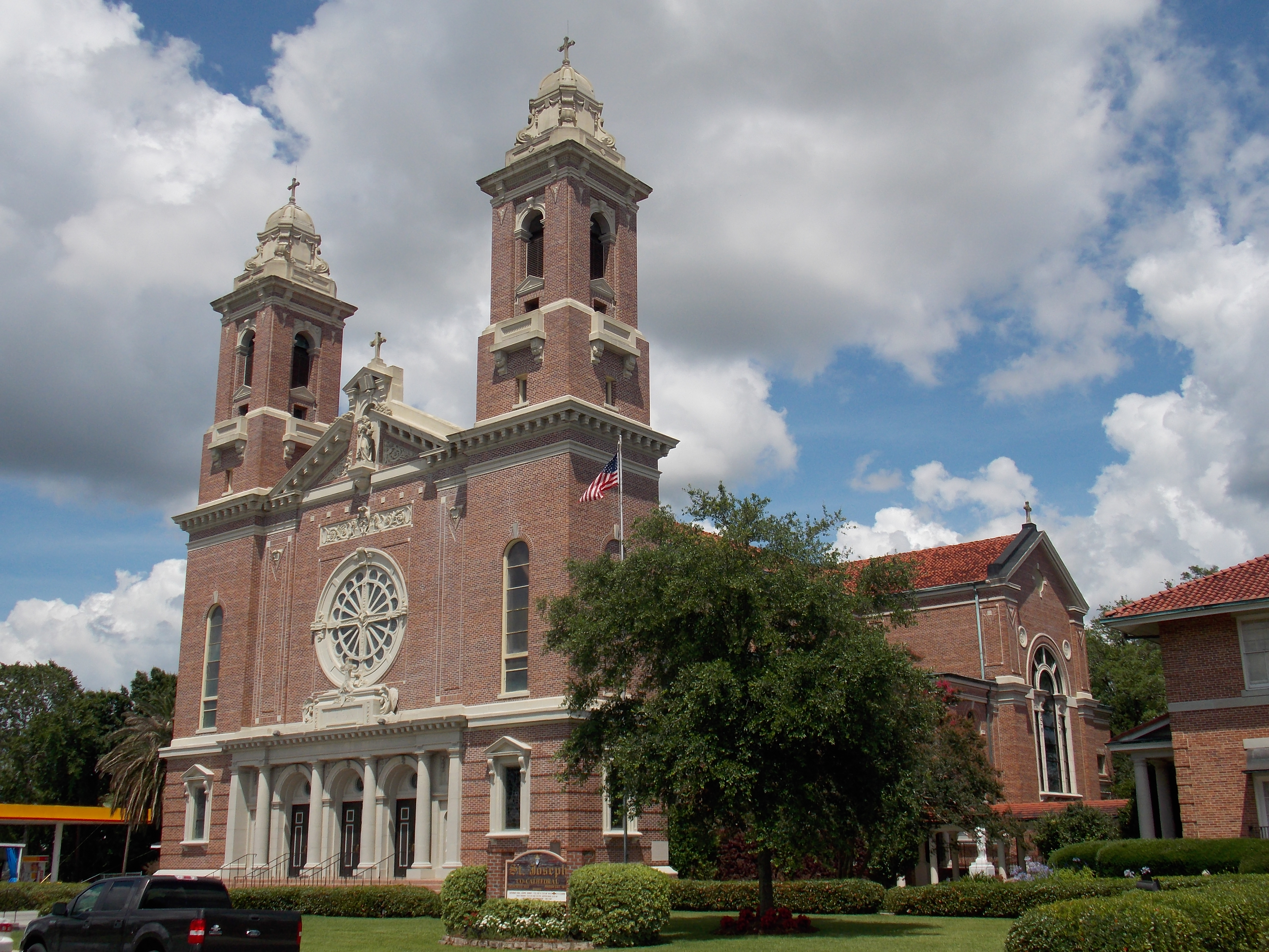 St. Joseph Co-Cathedral in Thibodaux, Louisiana is listed on the National Register of Historic Places.